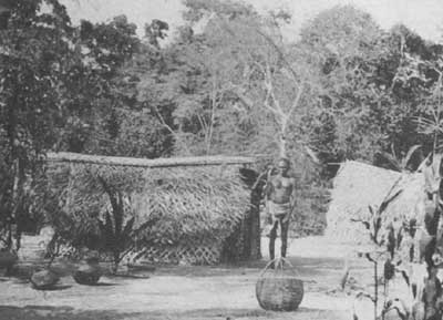 A picture of coastal Vedda people by the side of their settlement